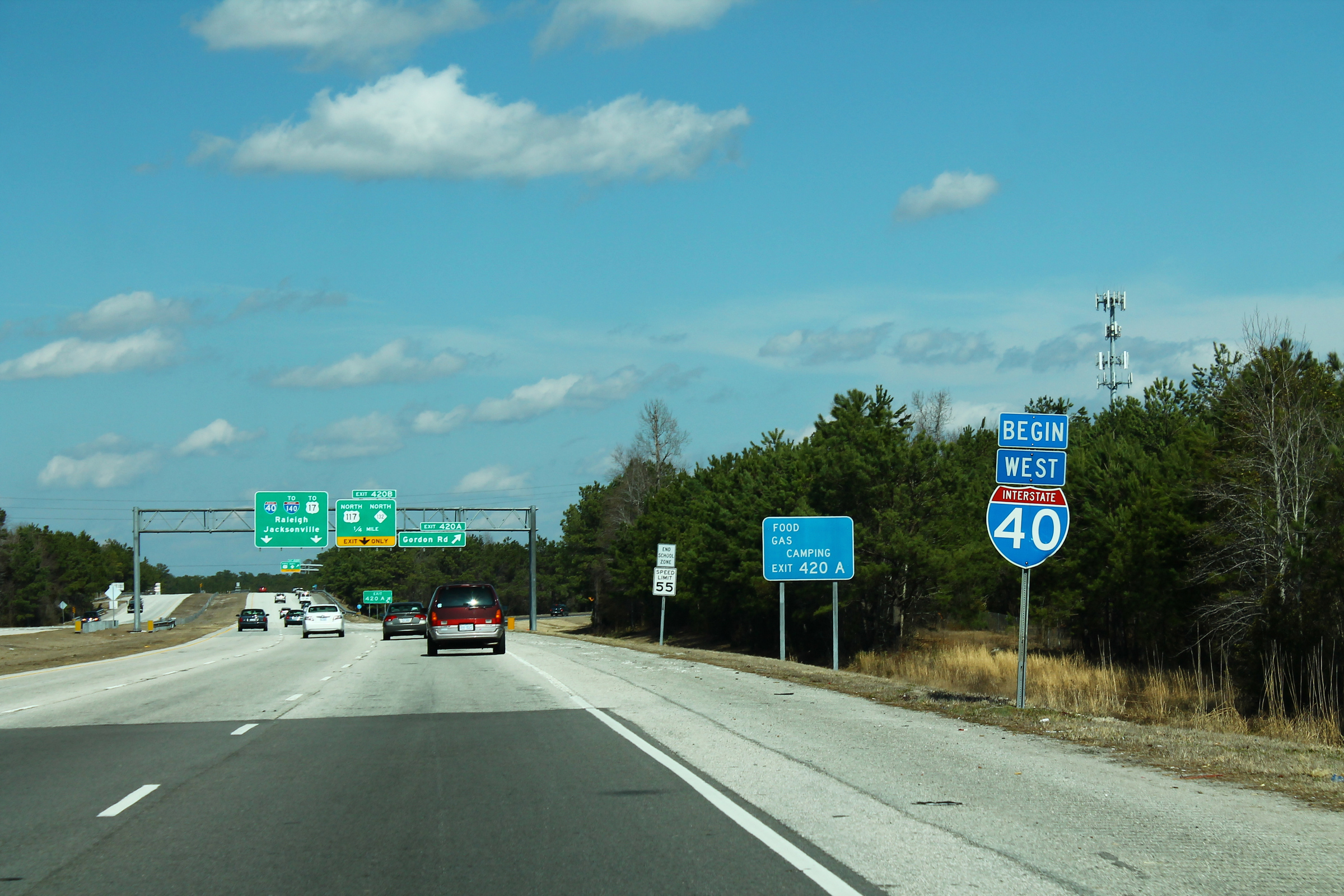 Eastern start of I-40 in Wilmington, North Carolina.